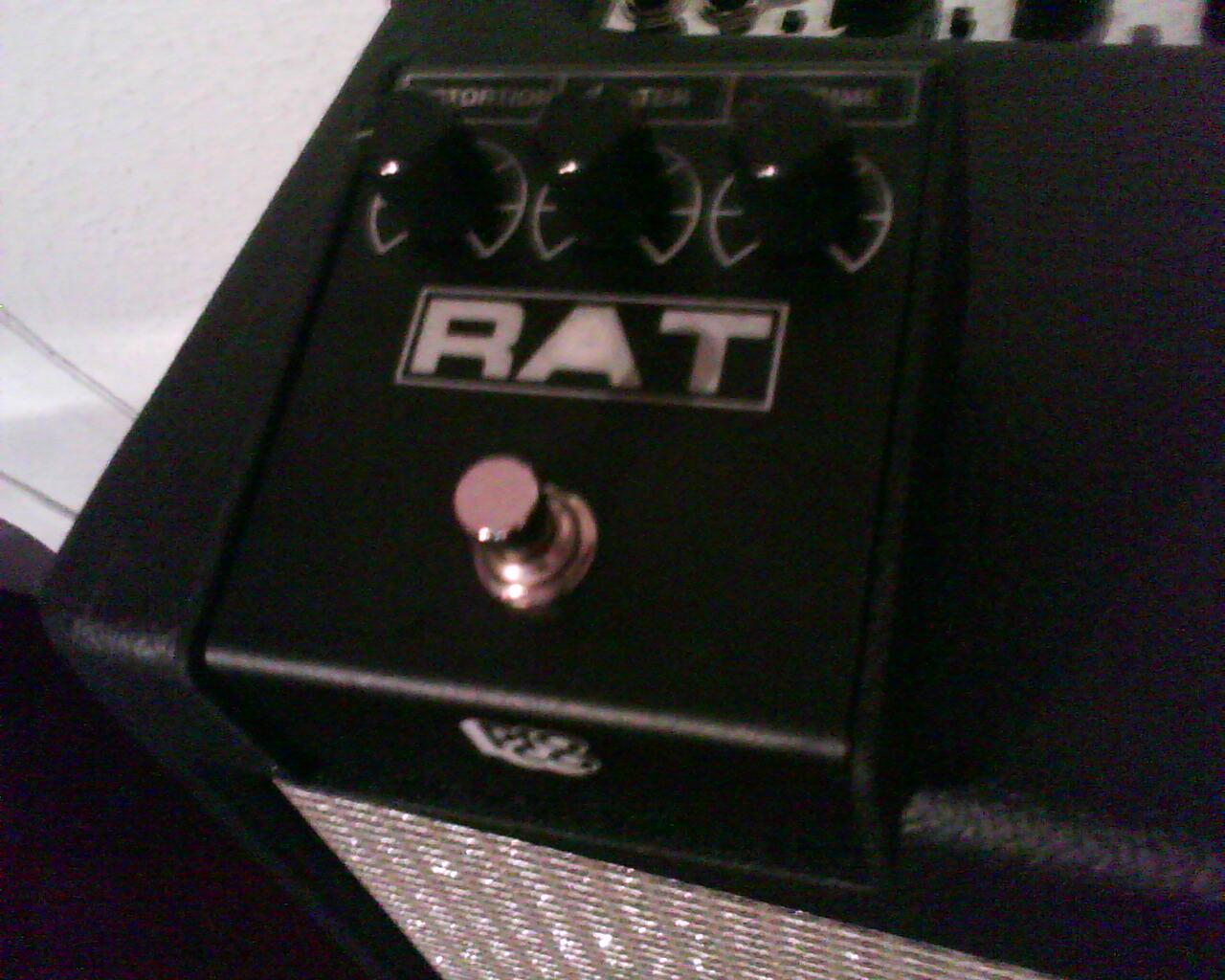 A ProCo "Rat" distortion pedal. It stands on the top of a "Fender Hot Rod Deluxe" amp.